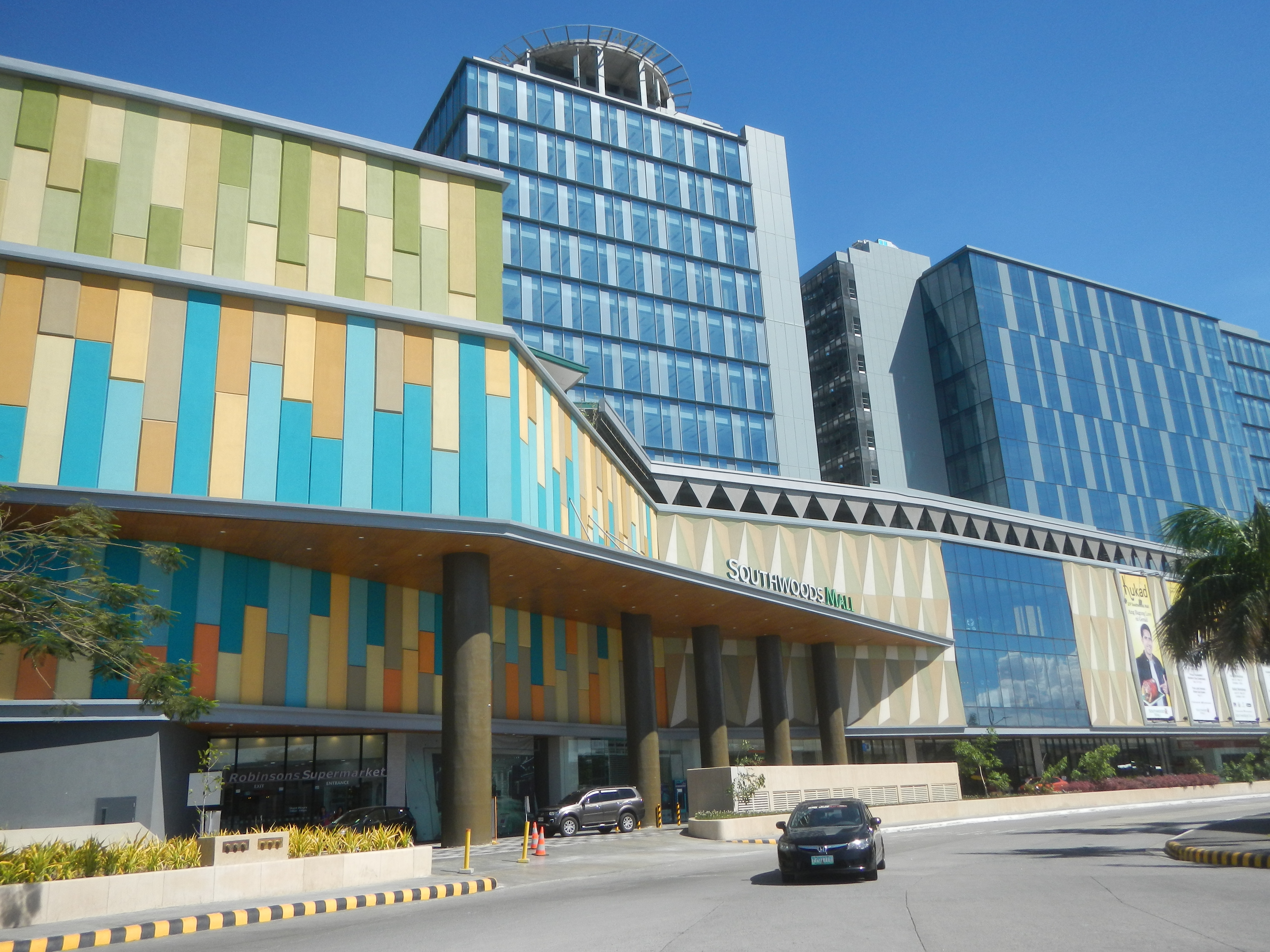 Santo Niño de Cebu (Biñan City) Colegio San Agustin – Biñan Southwoods City (San Francisco-Halang, Biñan City, Laguna) Unihealth-Southwoods Hospital and Medical Center (San Francisco-Halang, Biñan City, Laguna) Interior of the Santo Niño de Cebu Parish Church (Juana Complex, San Francisco, Biñan City) Roman Catholic Diocese of San Pablo Exterior (welcome arch, fences, 2 belfries and patio) of the Santo Niño de Cebu Parish Church (Juana Complex, San Francisco, Biñan City) Southwoods Mall Megaworld Corporation Megaworld Lifestyle Malls Barangay San Francisco (Halang) 14°19'56"N 121°3'18"E Soro-Soro 14°19'35"N 121°3'39"E Biñan City of Biñan, Laguna; Legislative district of Biñan (Note: Judge Florentino Floro, the owner, to repeat, Donor Florentino Floro of all these photos hereby donate gratuitously, freely and unconditionally all these photos to and for Wikimedia Commons, exclusively, for public use of the public domain, and again without any condition whatsoever). (Note: Judge Florentino Floro, the owner, to repeat, Donor Florentino Floro of all these photos hereby donate gratuitously, freely and unconditionally all these photos to and for Wikimedia Commons, exclusively, for public use of the public domain, and again without any condition whatsoever).